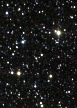 Atlas Image showing the Solar System asteroid 2 Pallas, one of the most studied and the second brightest of these minor planets. These data are part of the Spring 1999 data release, which will contain a number of other detections of known asteroids. Identification of the objects takes place as part of the 2MASS pipeline processing. Near-infrared photometry of asteroids can tell much about the Sun-reflecting surface composition, for example, the amount and nature of any organic solids or ices coating the asteroid's rocky interior. The properties of this regolith affect the albedo, or reflectivity, of the asteroid. Using thermal emission models for asteroids, for instance, a number of parameters, including diameter and thermal history, can be derived. The observed colors and inferred compositions of asteroids can place constraints on the thermal environment in the early Solar System, providing clues to the formation of the major planets, including the Earth.